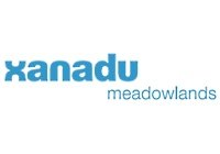 Xanadu Meadowlands Logo